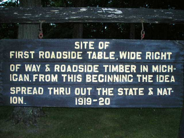 Site of the first roadside table (1919-1920) placed at a roadside park in Michigan and U.S.